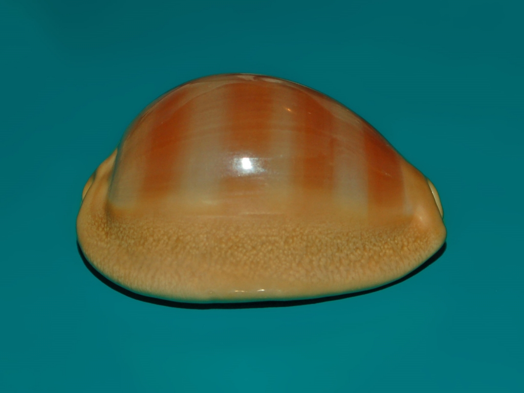 Lyncina sulcidentata - Hawaii